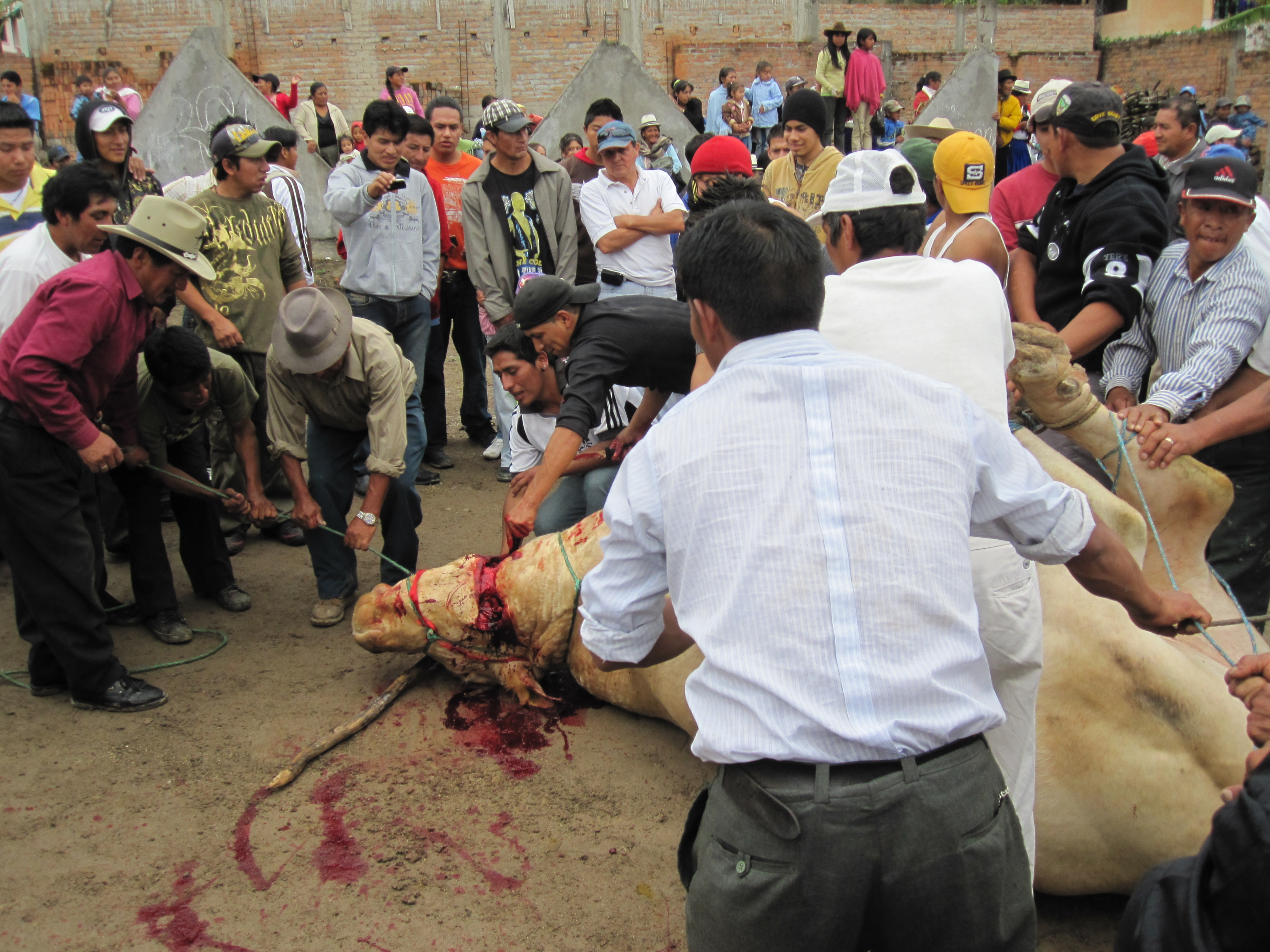 Sacrifice of the bull during the Fiesta de Toros, Giron, Ecuador